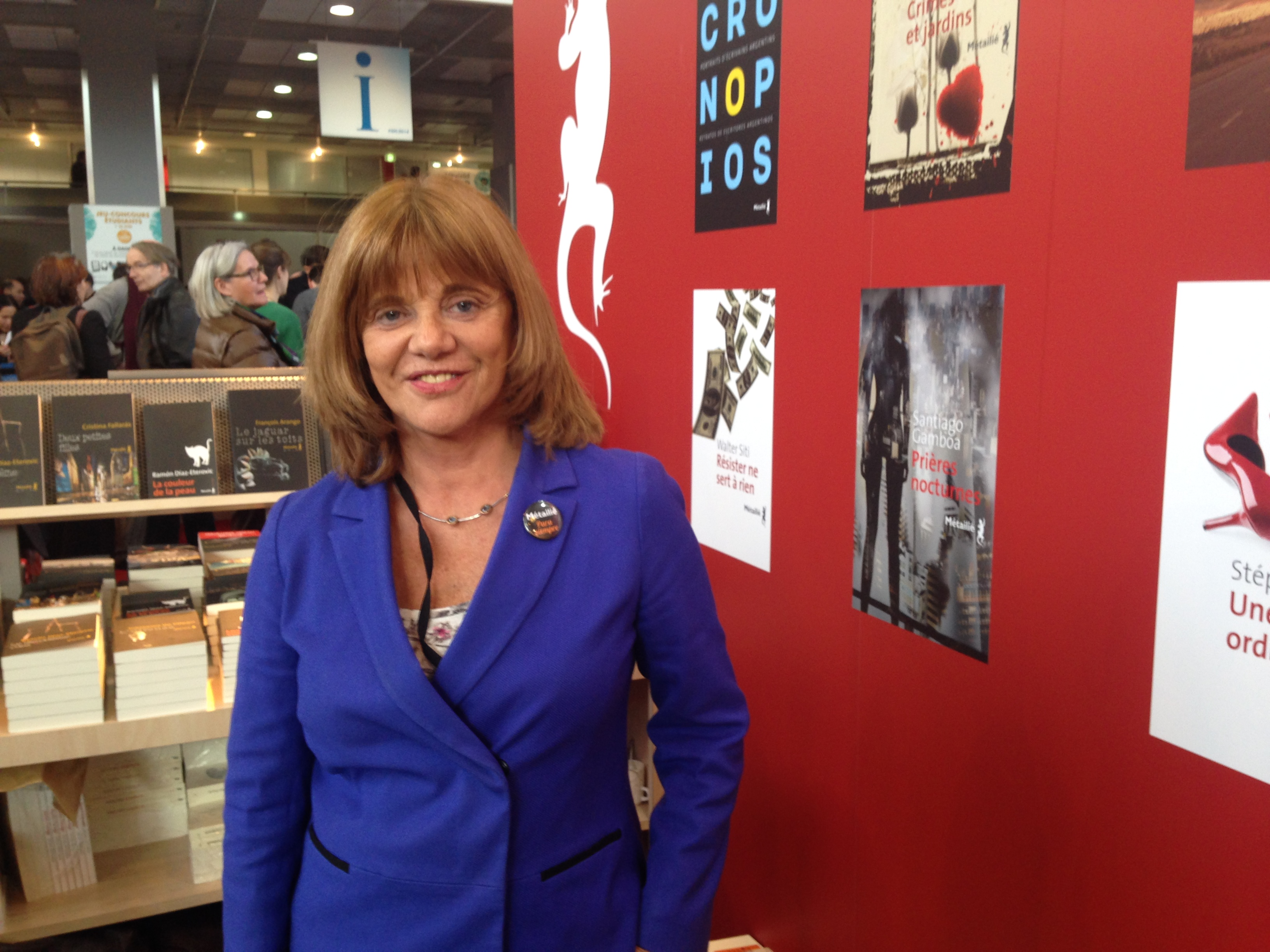 Paris Book Fair, 21-24 March 2014.